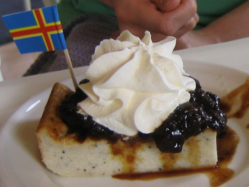 Åland pancake. Own work.